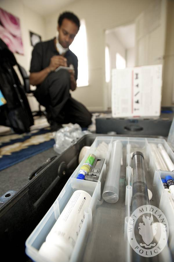 This shows forensic scene investigator Kevin Ramsay dusting for fingerprints at a house that was burgled in Birmingham. The photo also shows a selection of specialist equipment that is carried to jobs by our evidence gathering forensic investigators